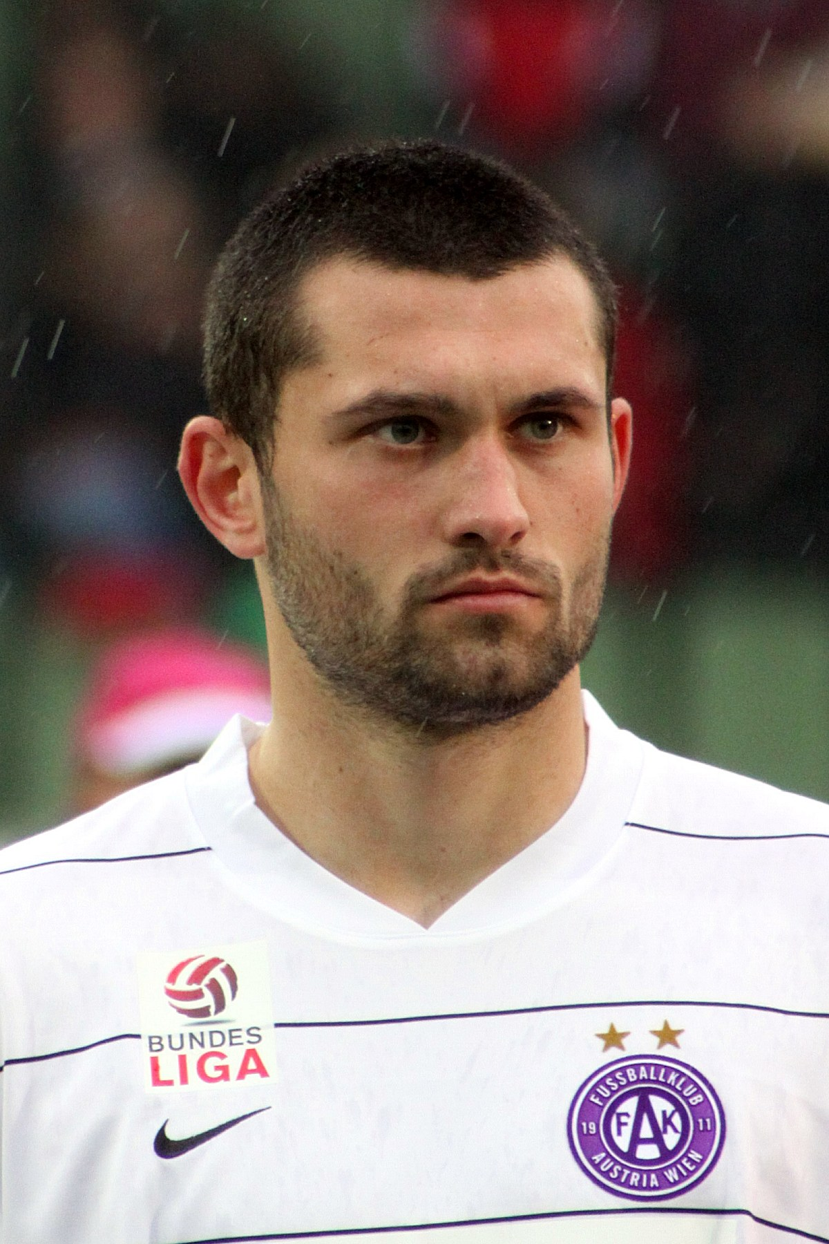 Dario Tadić - FK Austria Wien